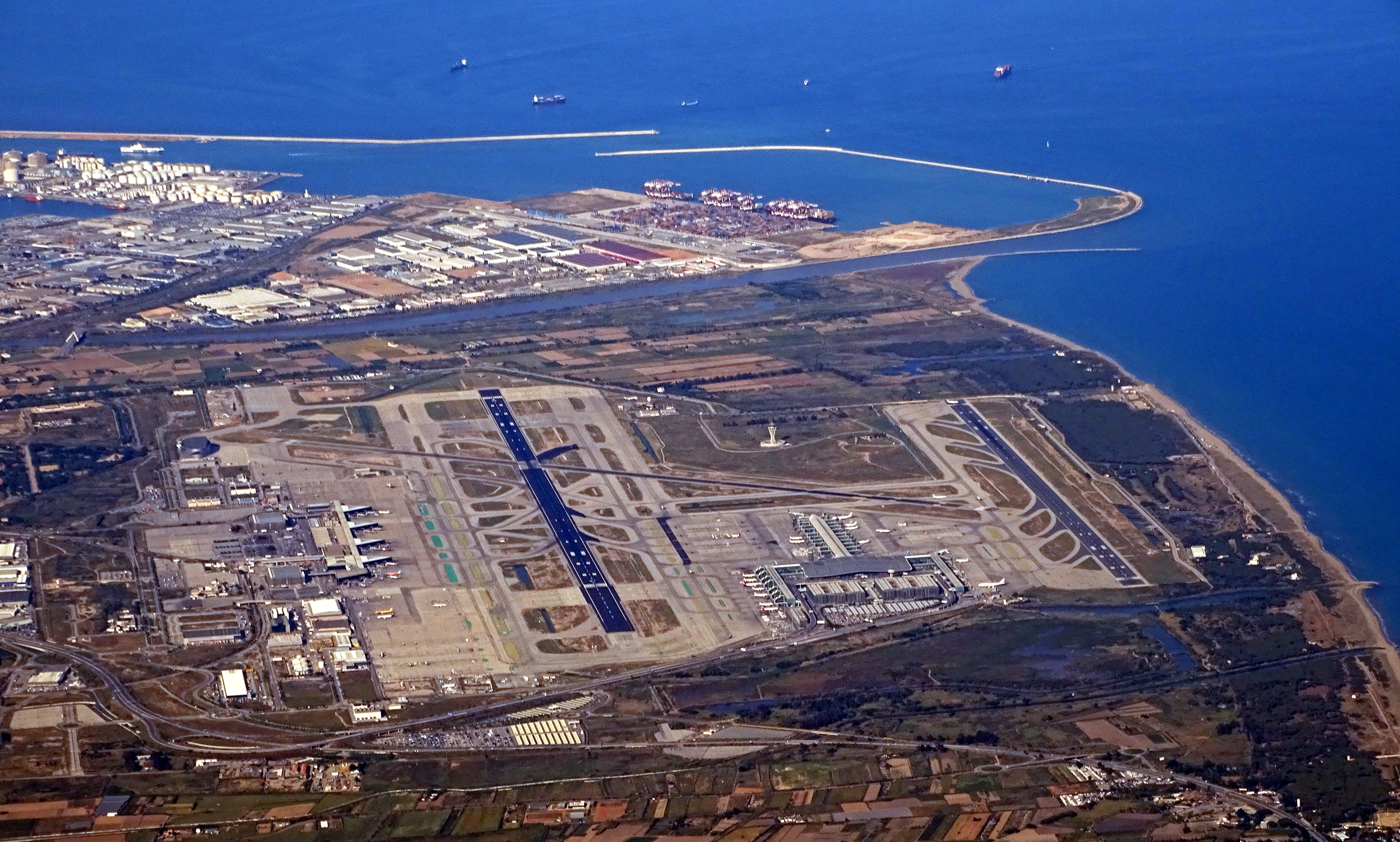 Barcelona–El Prat Airport(Catalan: Aeroport de Barcelona – el Prat